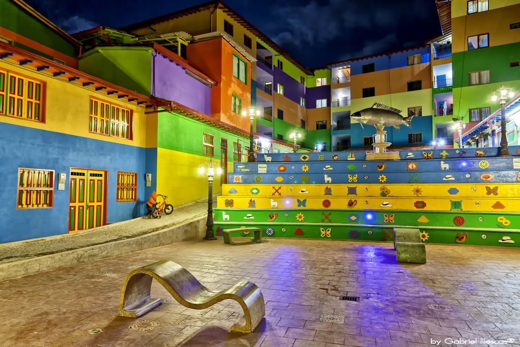 Typical facade of the square of the town center trade.